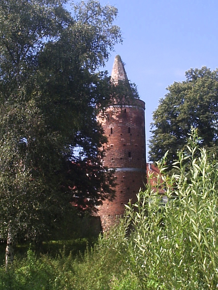 Ośno Lubuskie, Poland